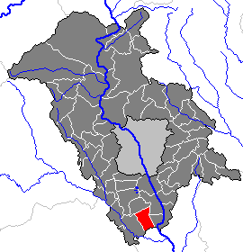 This map shows the area of the Gemeinde (municipality) Wundschuh in the Bezirk (district) Graz-Umgebung, Styria, Austria.